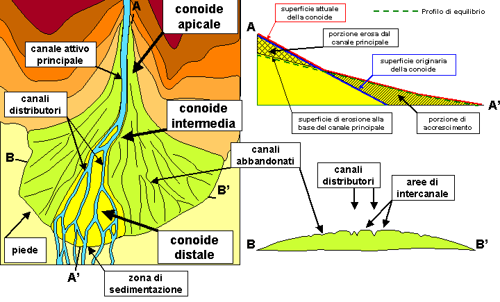 Ideal sketch of an alluvial fan. Text in Italian.